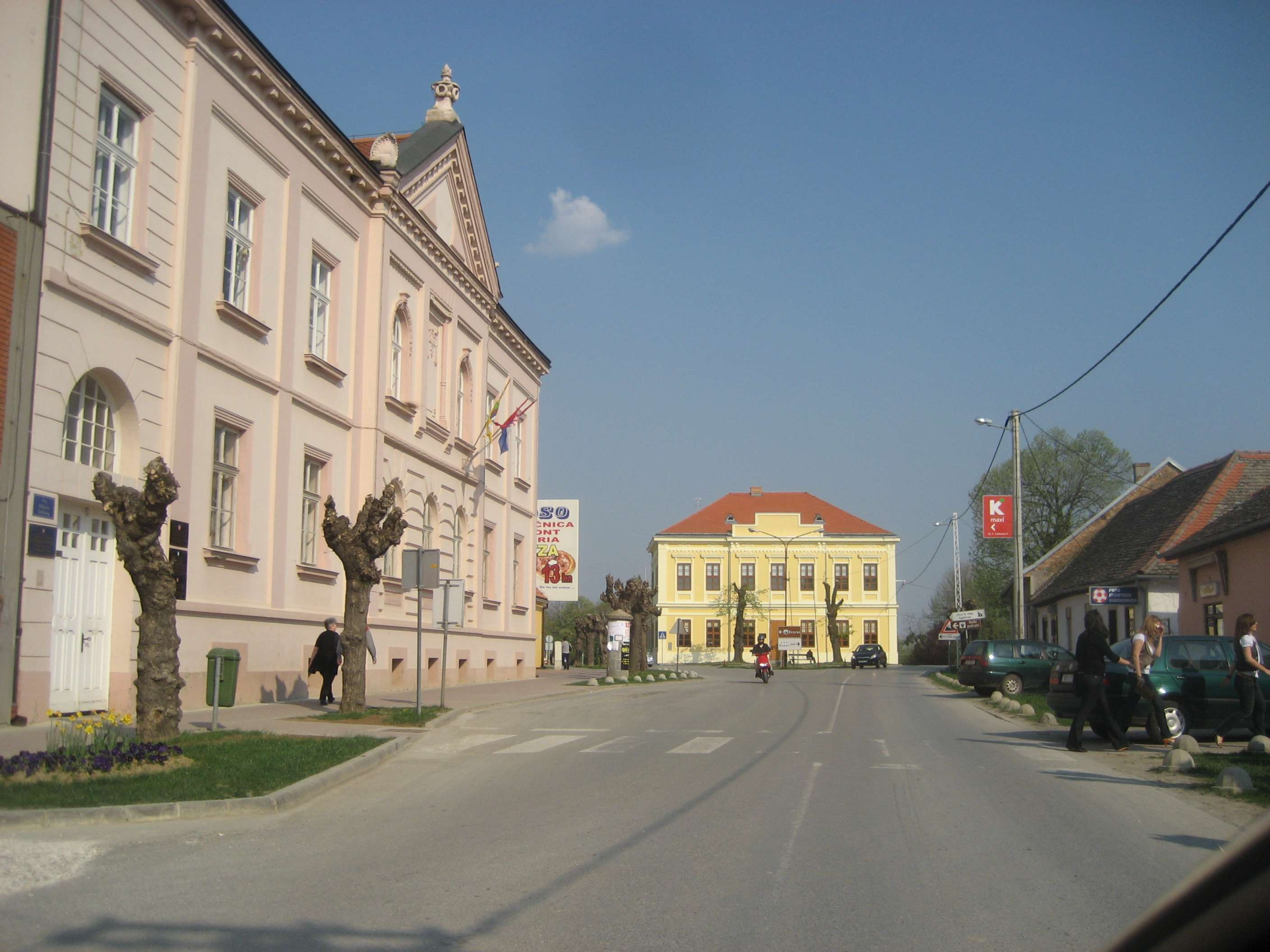 Ilok, Croatia. April 2009